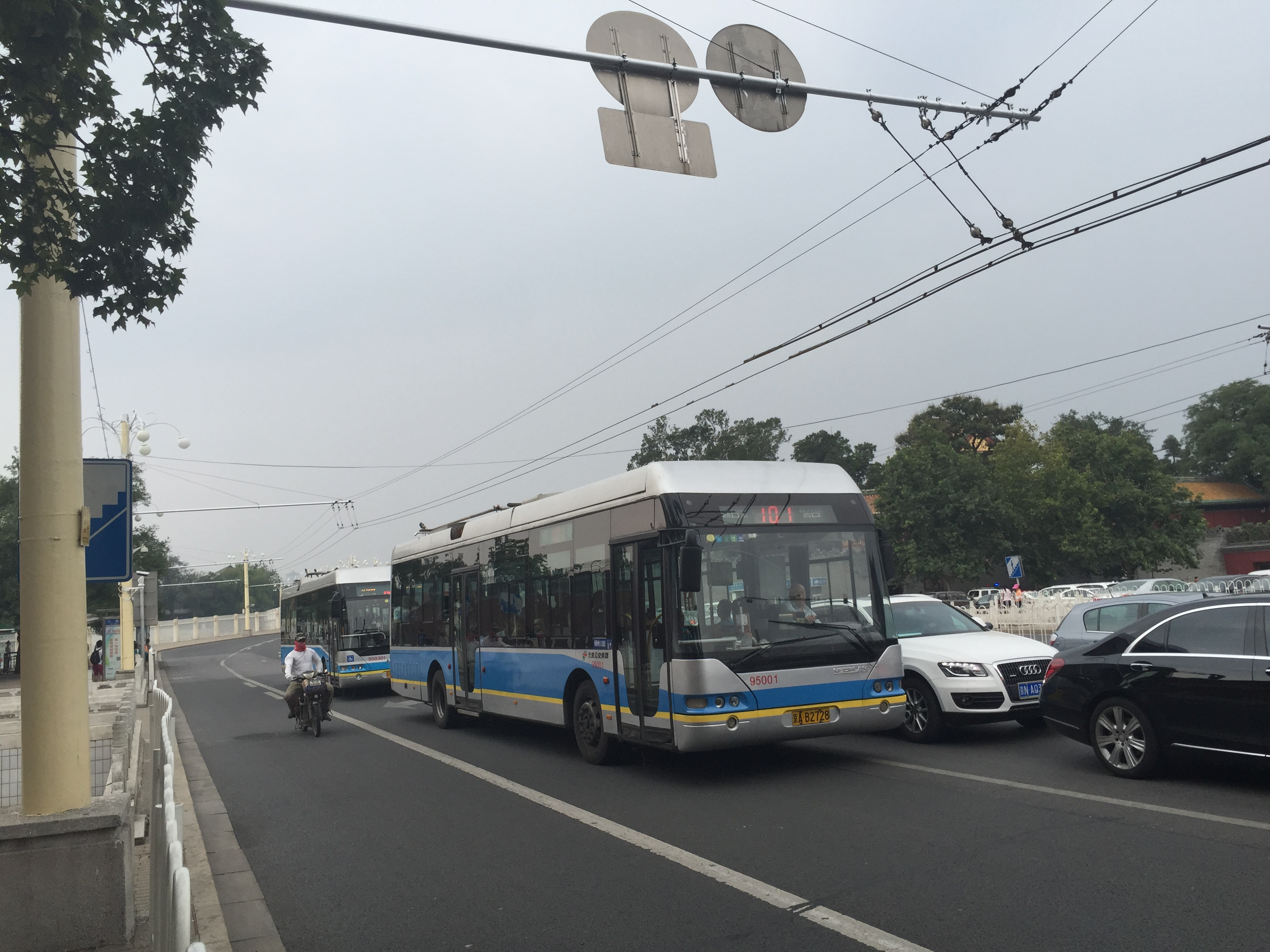 1st gen Electro-Neo 95001 and 3rd gen Electro-Neo 950301.